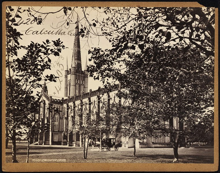 View of St. Paul's Cathedral in Calcutta.